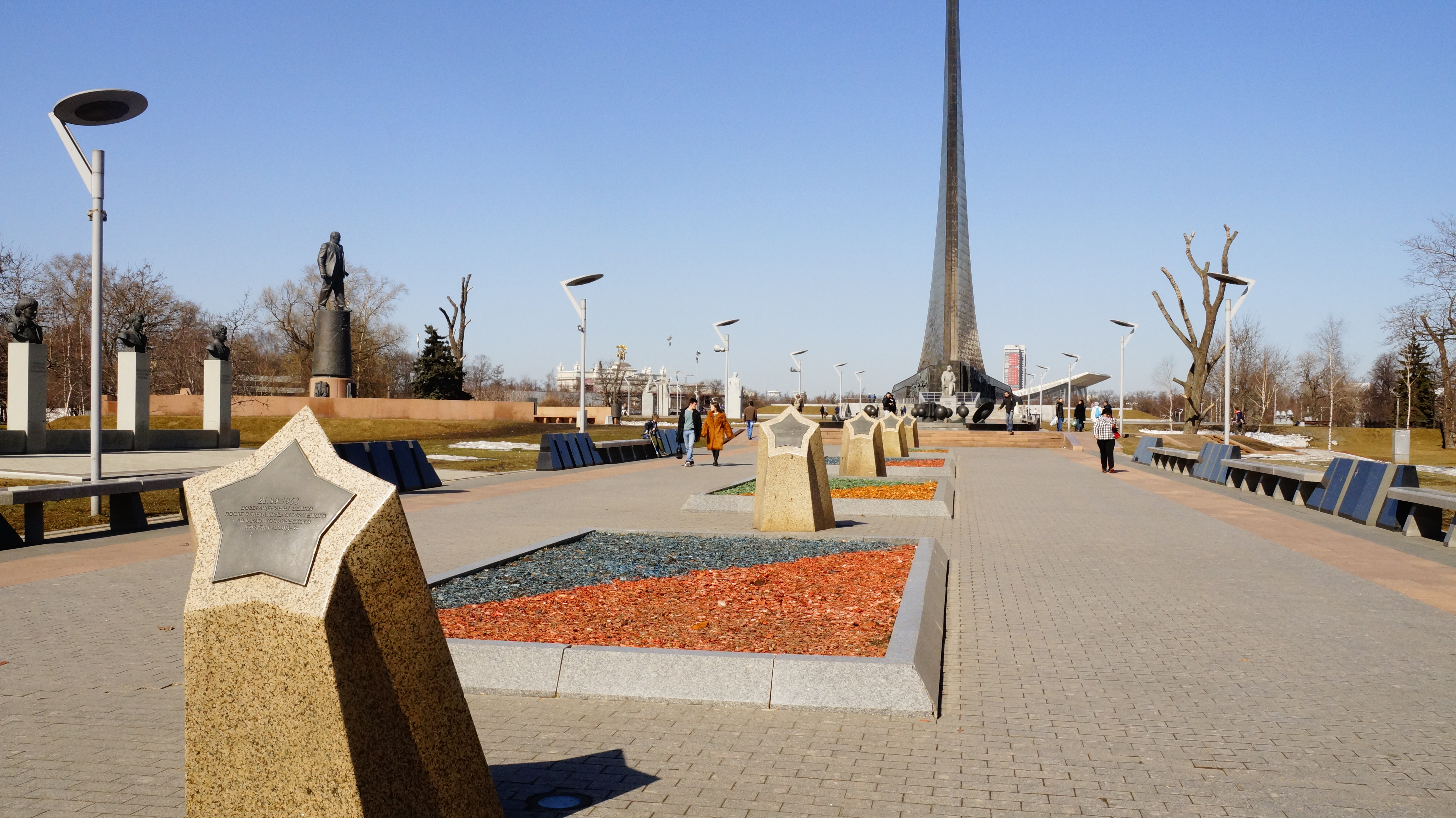 View of the Cosmonauts alley 9th of April of 2018.